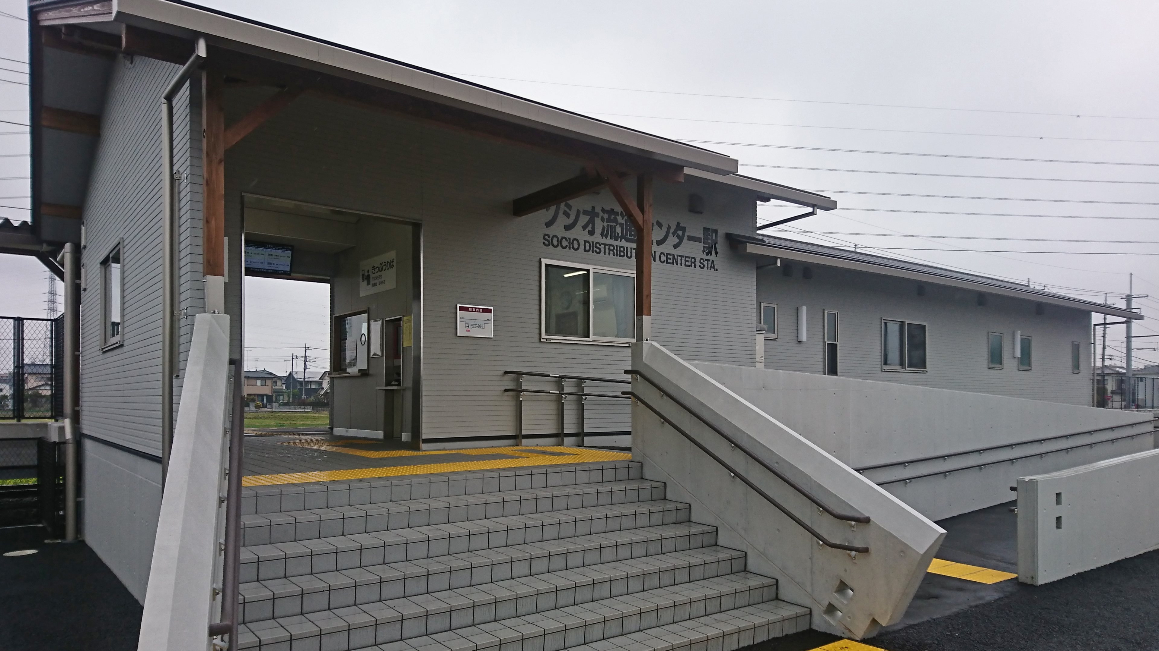 Socio Distribution Center Station on the Chichibu Main Line in Saitama Prefecture, Japan